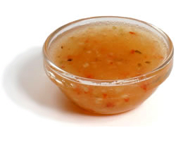 ITALIAN DRESSING! HANDS OFF